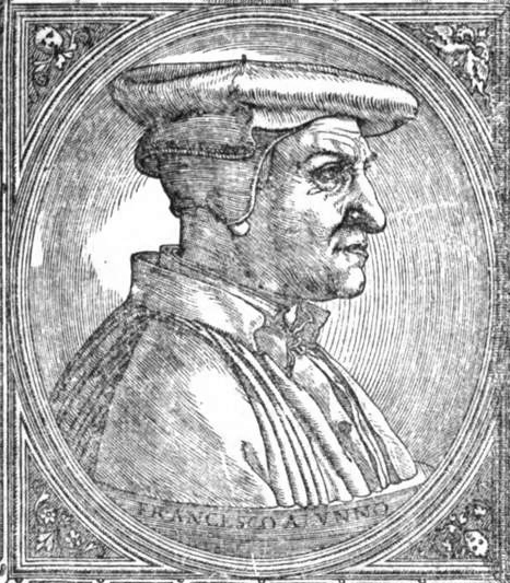 Portrait of Francesco Alunno (Francesco Del Bailo, 1484 ? – 1556), Italian Calligrapher and Lexicographer.